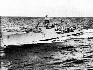 The Royal Navy frigate HMS Exmouth (F84) underway. Exmouth was taking part in operation "Limejug II", an anti-submarine exercise with U.S. Navy Task Group 83.3 with the aircraft carrier USS Essex (CVS-9), and the Royal Canadian Air Force.